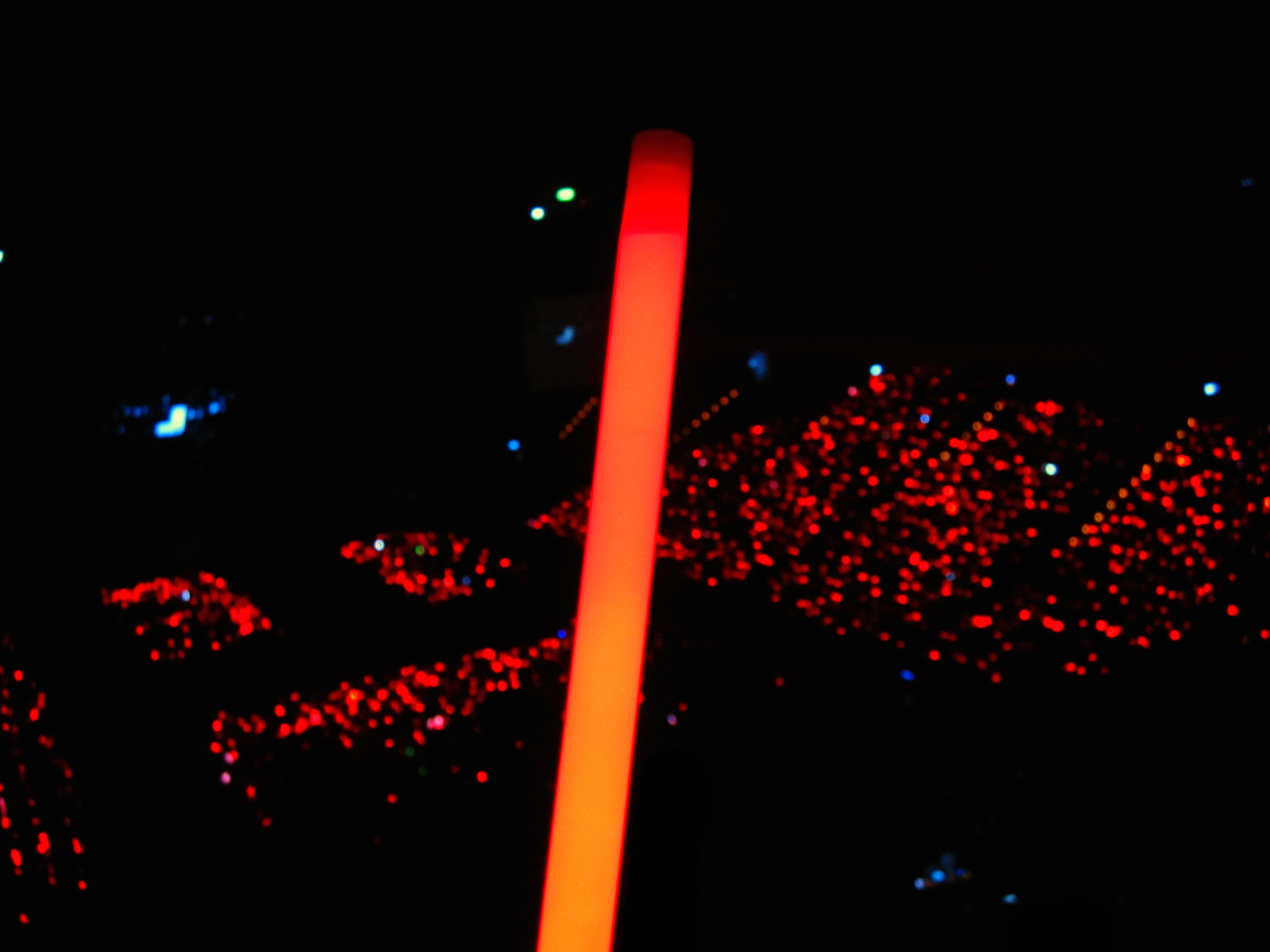 TVXQ fanclub Cassiopeia in red color at a JYJ concert (ex-TVXQ members) in Taipei 2011